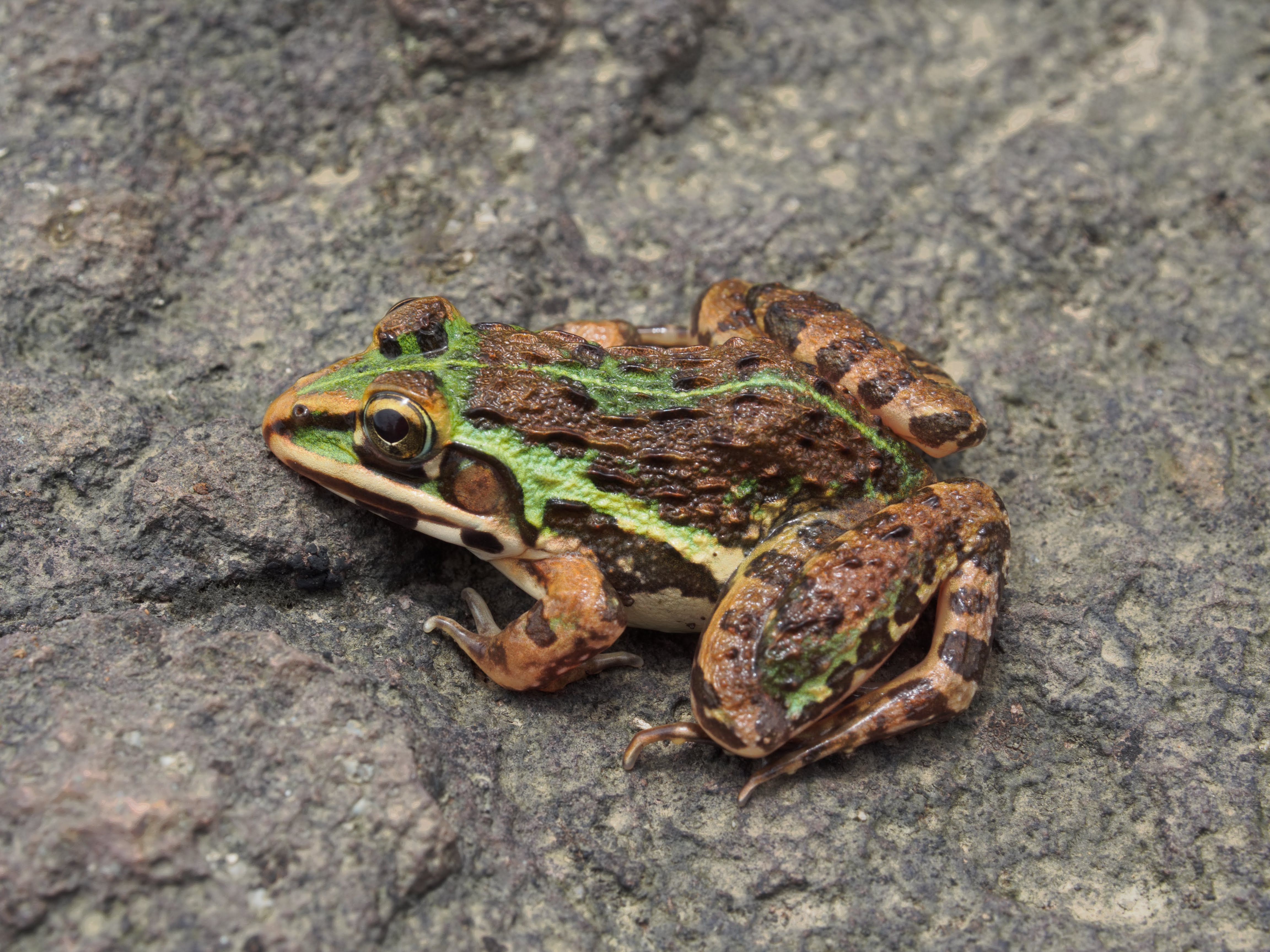 Indian BullFrog from Kothligad, Maharashtra